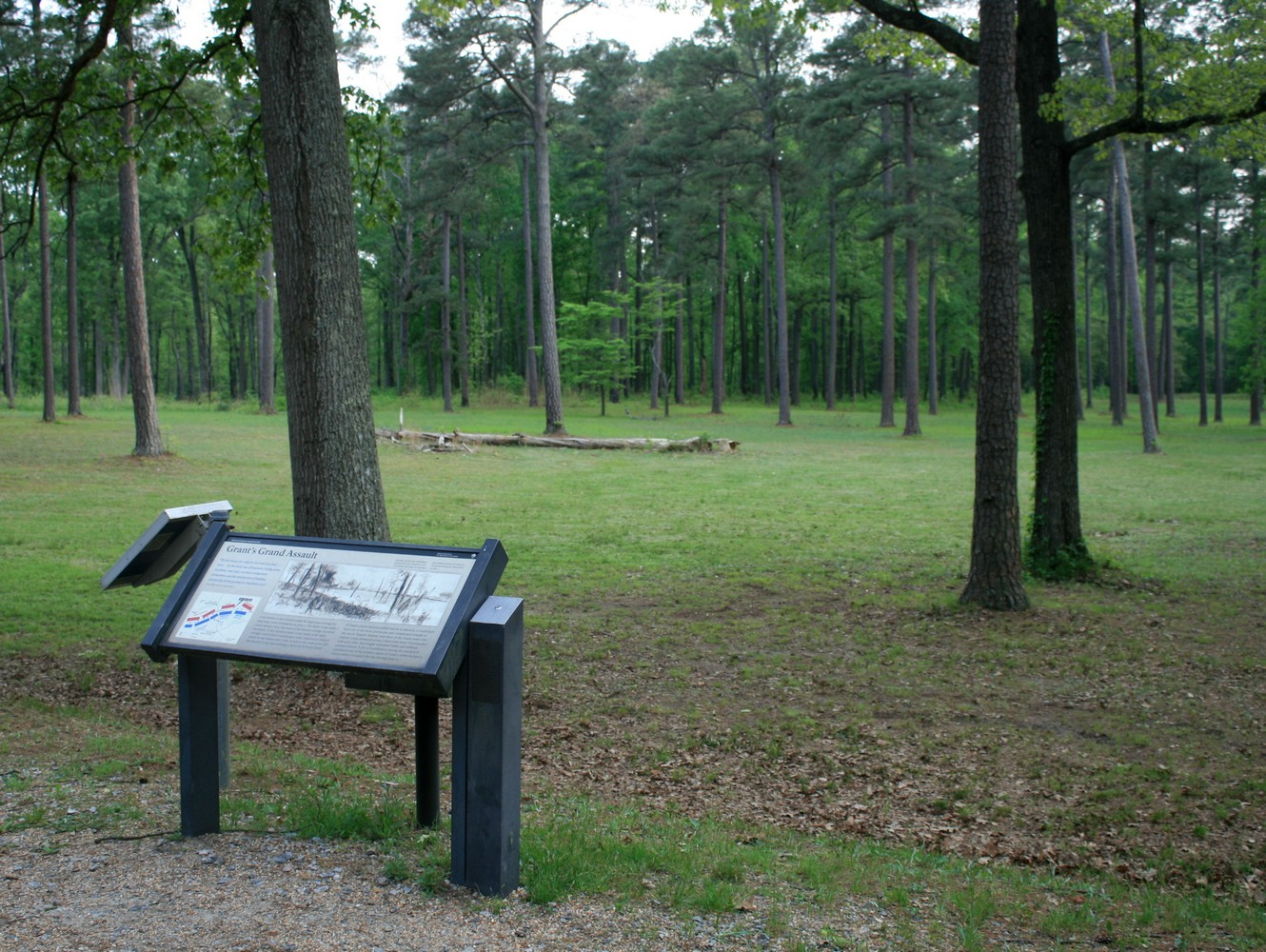 Cold Harbor battlefield and historical marker